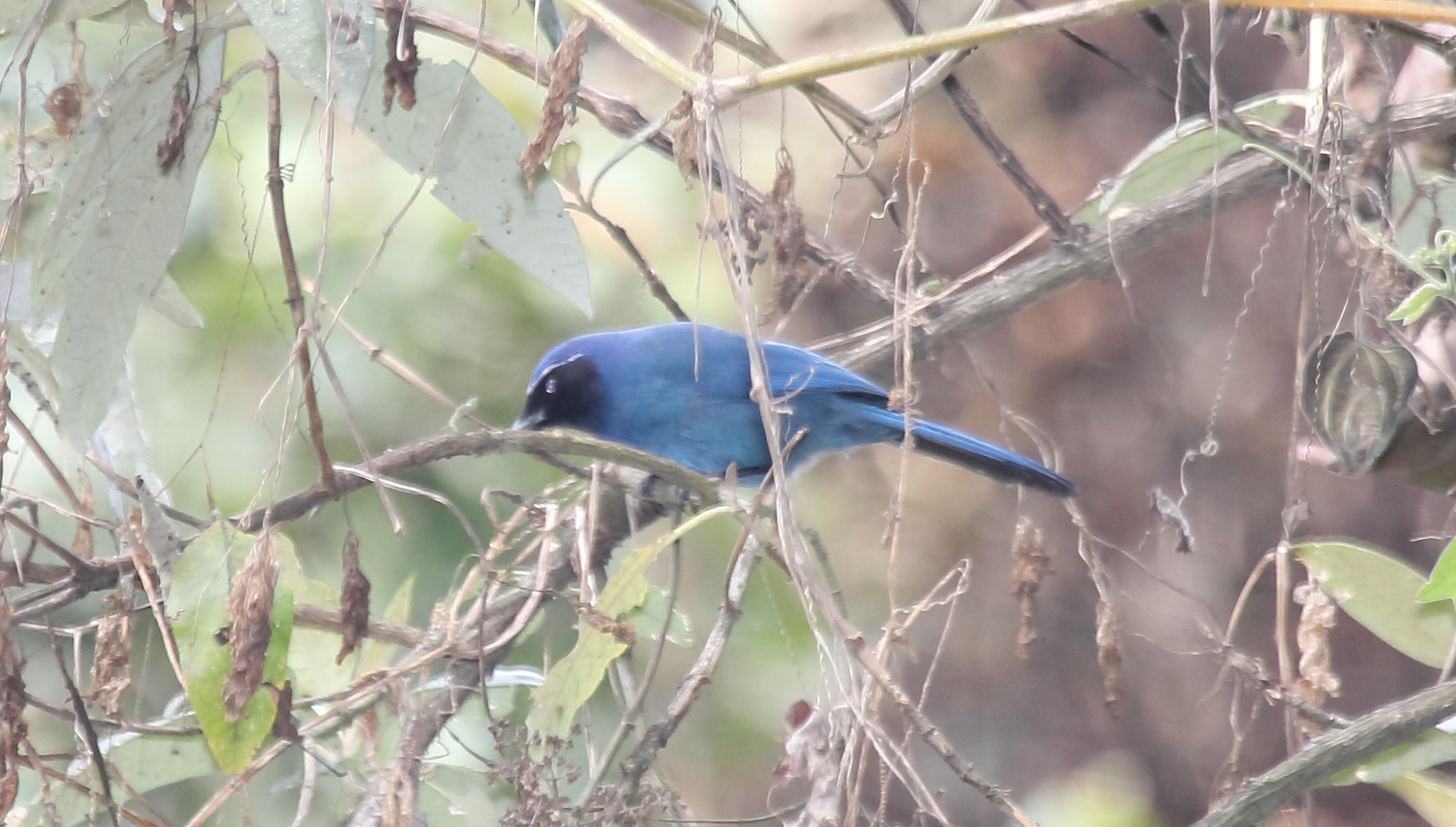 Black-throated Jay (Cyanolyca pumilo), Fuentes Georginas, Guatemala.